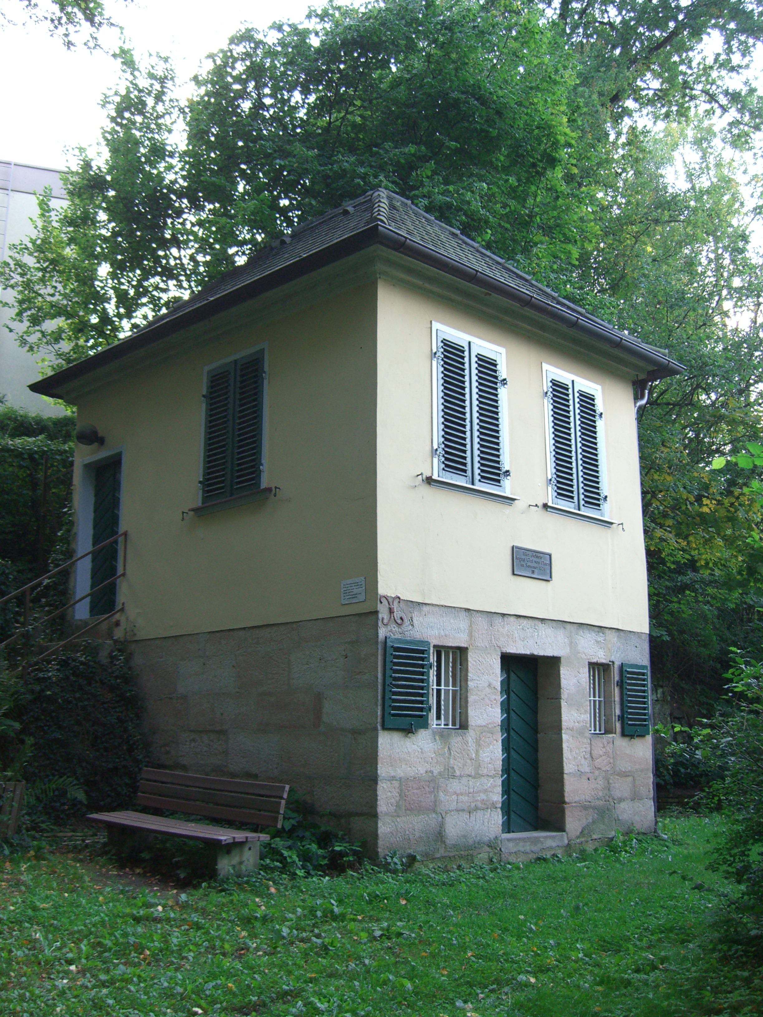 The Platenhäuschen of August Graf von Platen at the Burgberg in Erlangen, Germany.